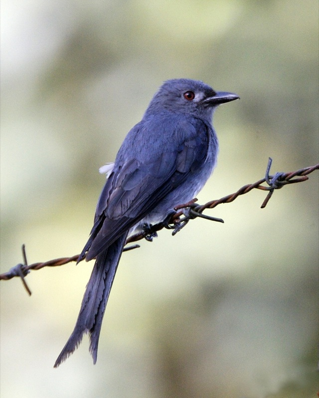 Ashy Drongo Dicrurus leucophaeus ssp Dicrurus leucophaeus stigmatops Kinabalu Park, Sabah, East Malaysia 6th. June 2009 Distribution: 690V7156